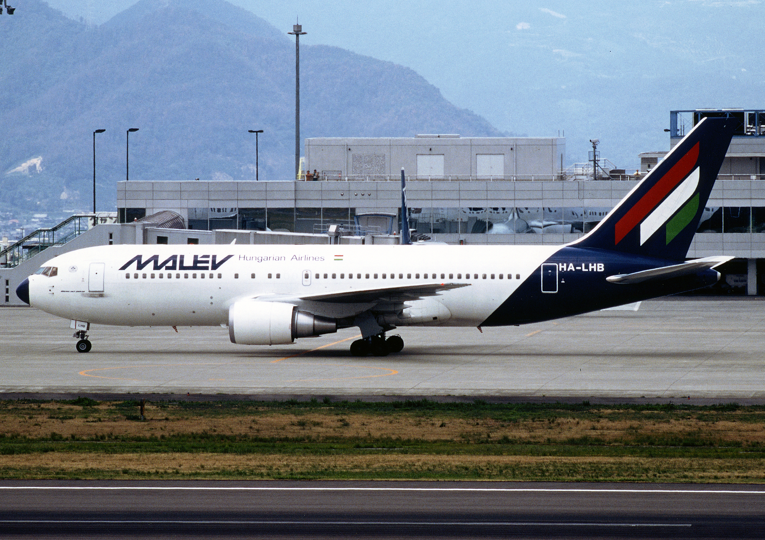 Malev Boeing 767-200ER (HA-LHB) at Takamatsu Airport.